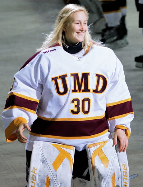 University of Minnesota Duluth goalie Kim Martin